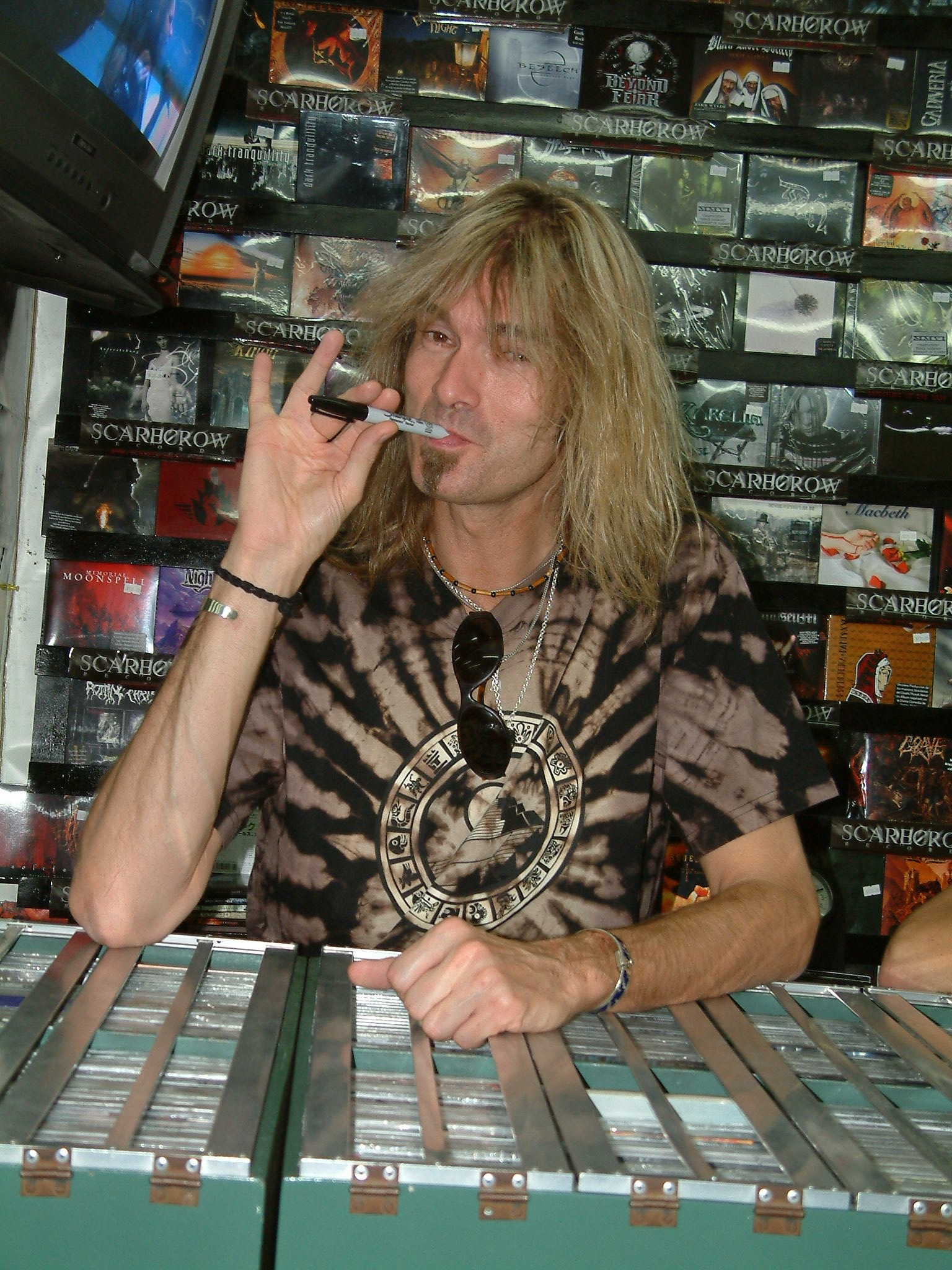 Arjen Anthony Lucassen doing a sign sessionArjen